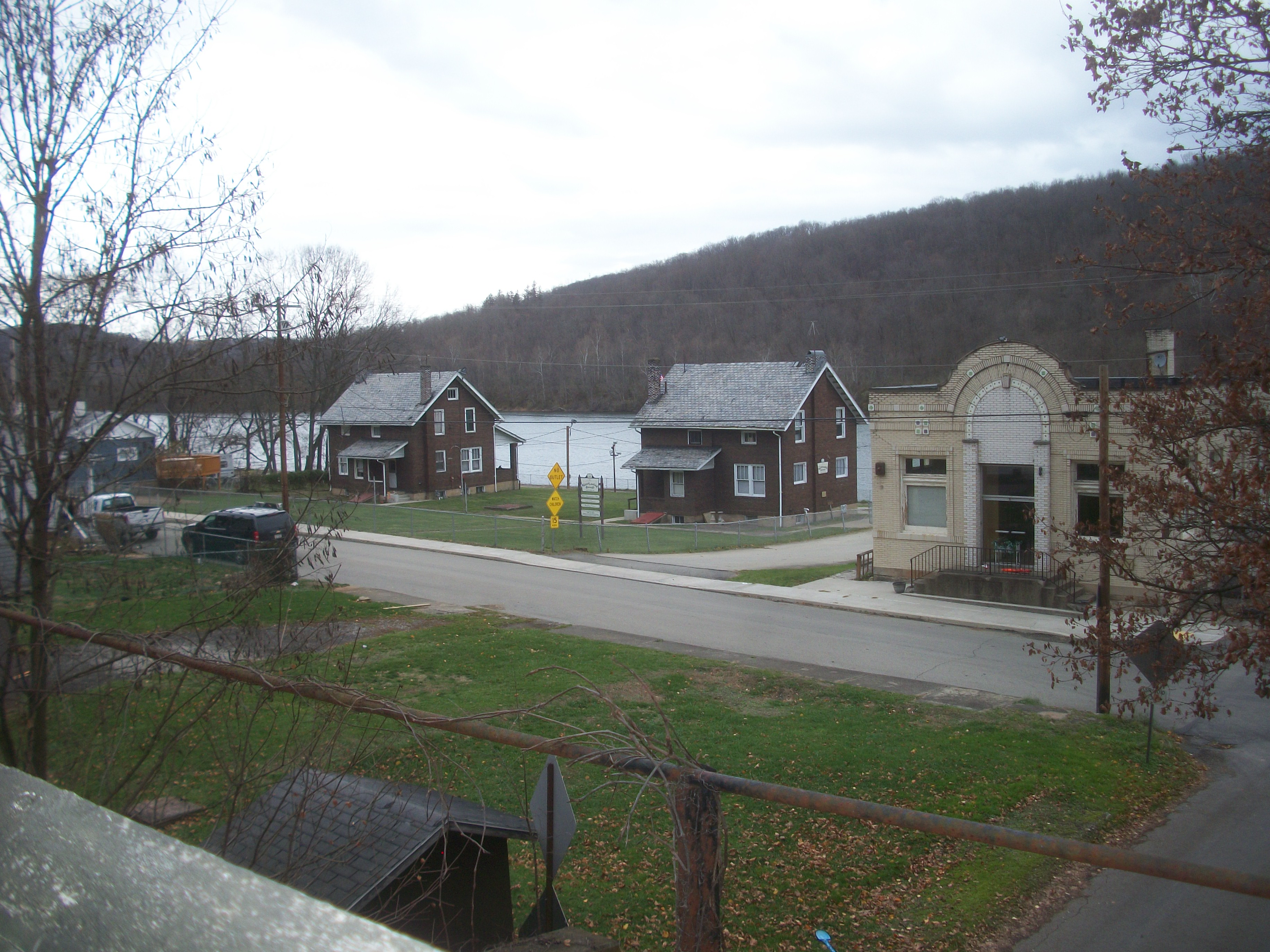 View from the Green River Trail. - Rices Landing, Pennsylvania